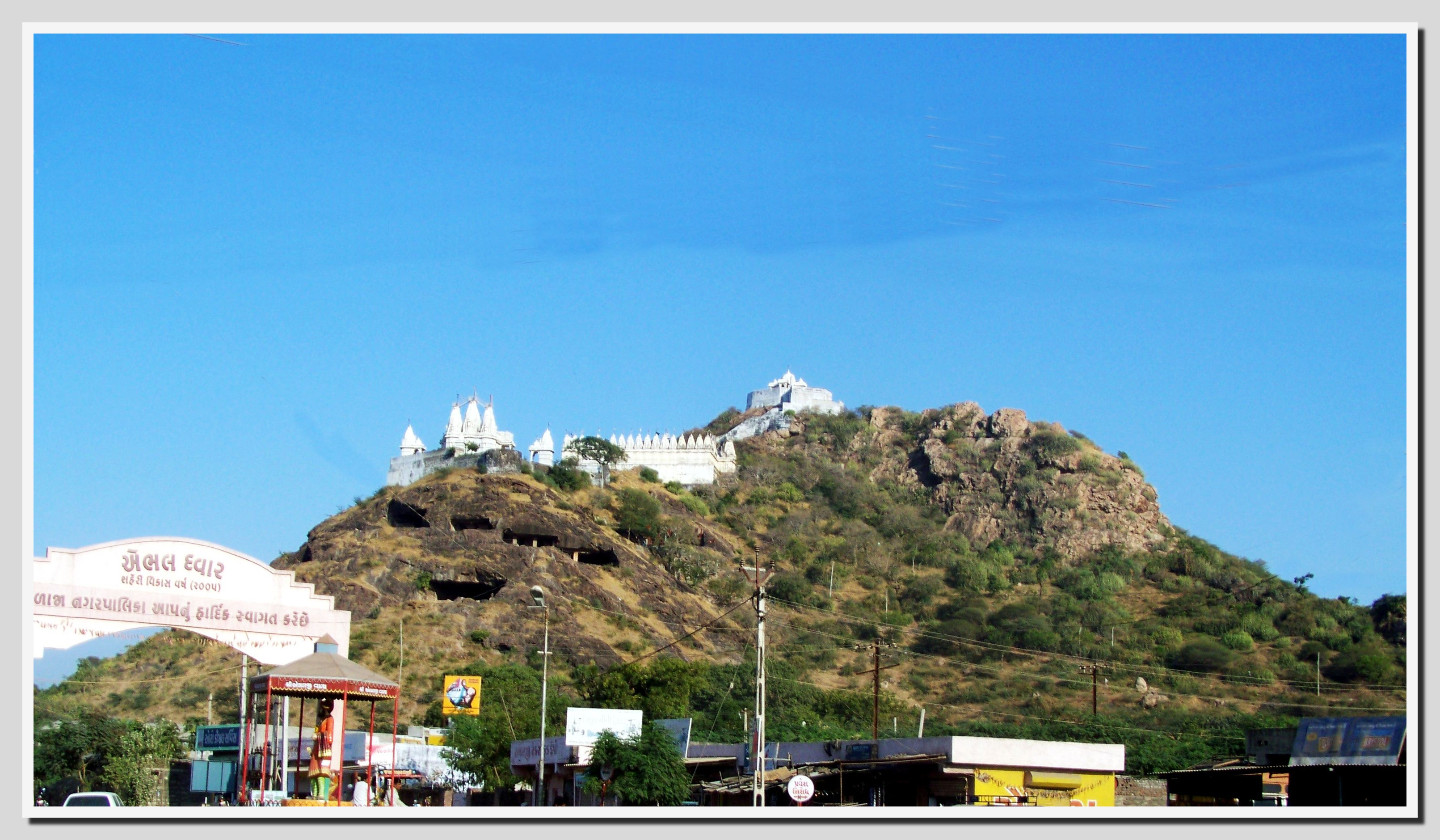 Taaldhwaj giri - Talaja, Gujarat, India